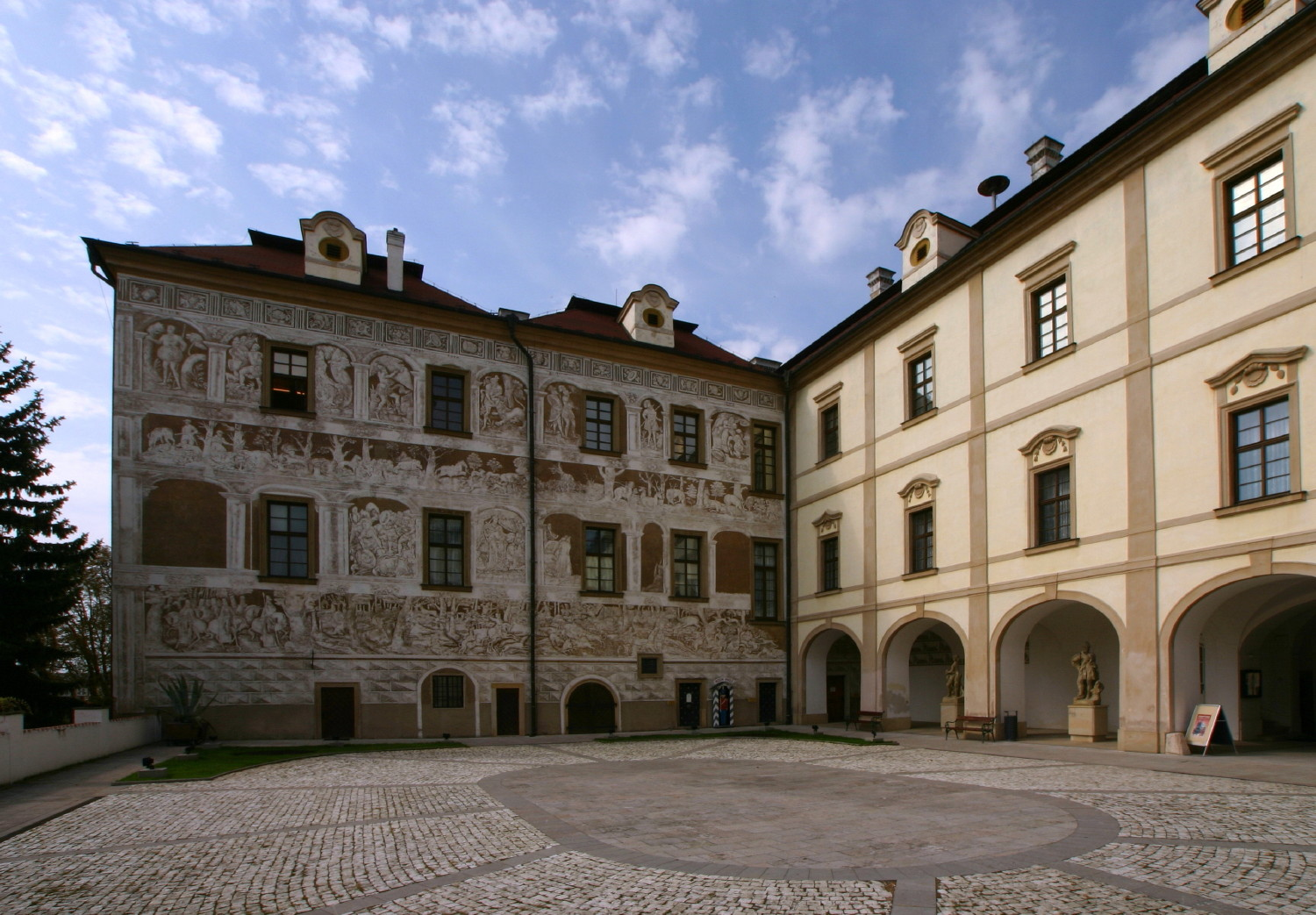 The castle in Benátky nad Jizerou (Czech Republic), where Tycho Brahe lived from August 1599 to June 1600. In February 1600, Tycho Brahe and Johannes Kepler met here for the first time.